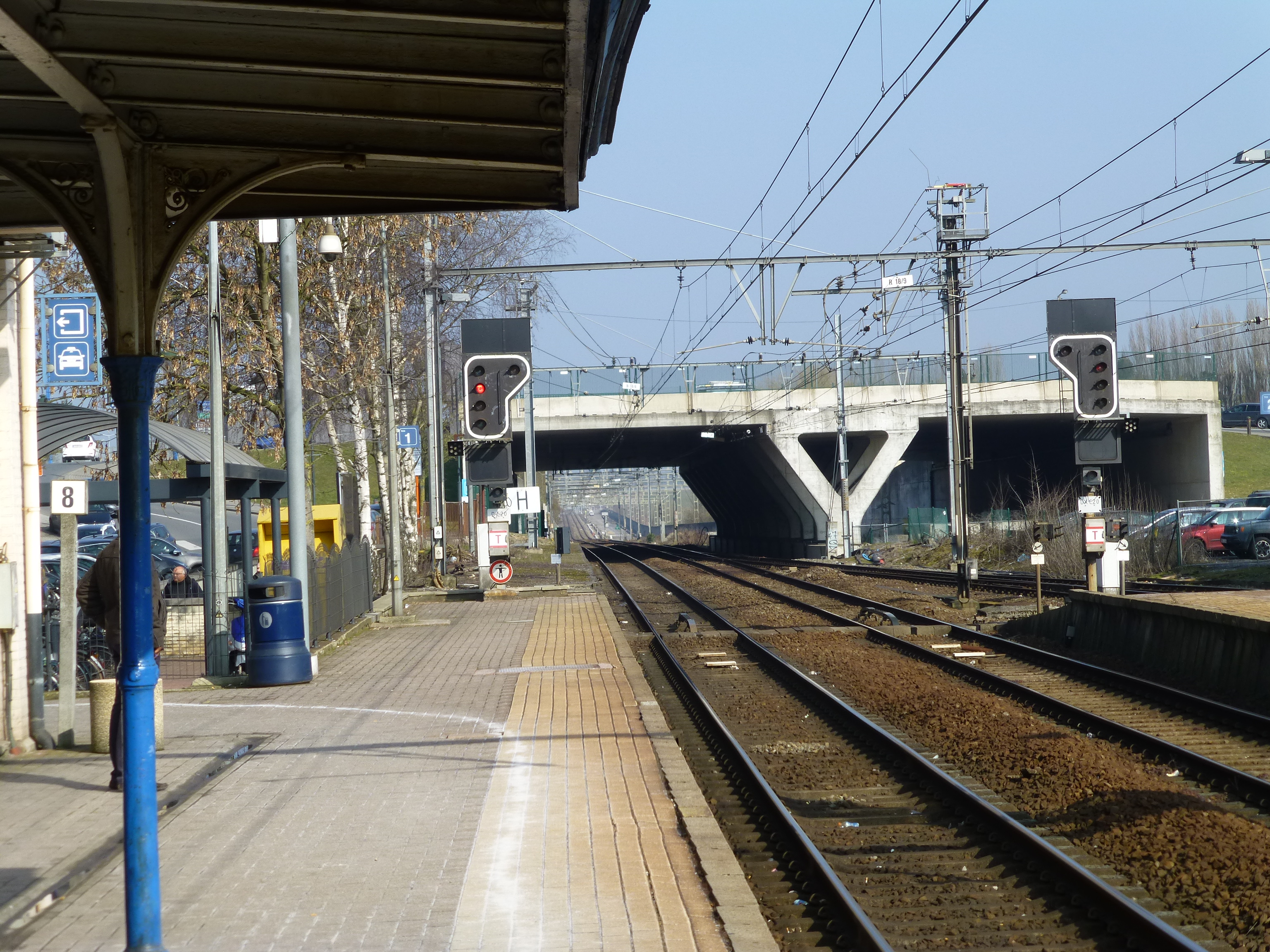 The works for the RER progress at the Braine-l'Alleud station, March 2016, towards Waterloo.